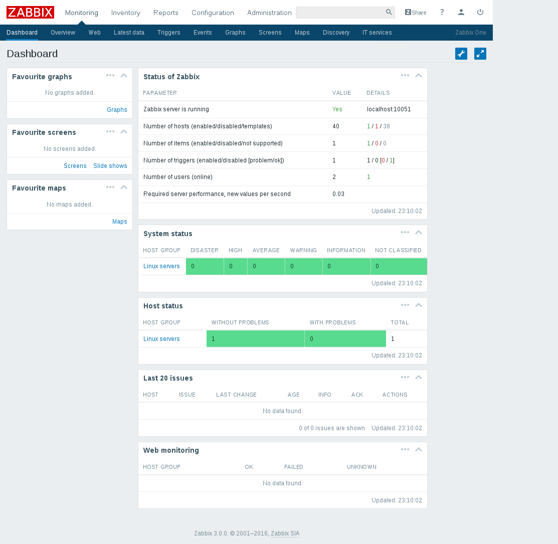 Dashboard of the Zabbix 3.0.0 release